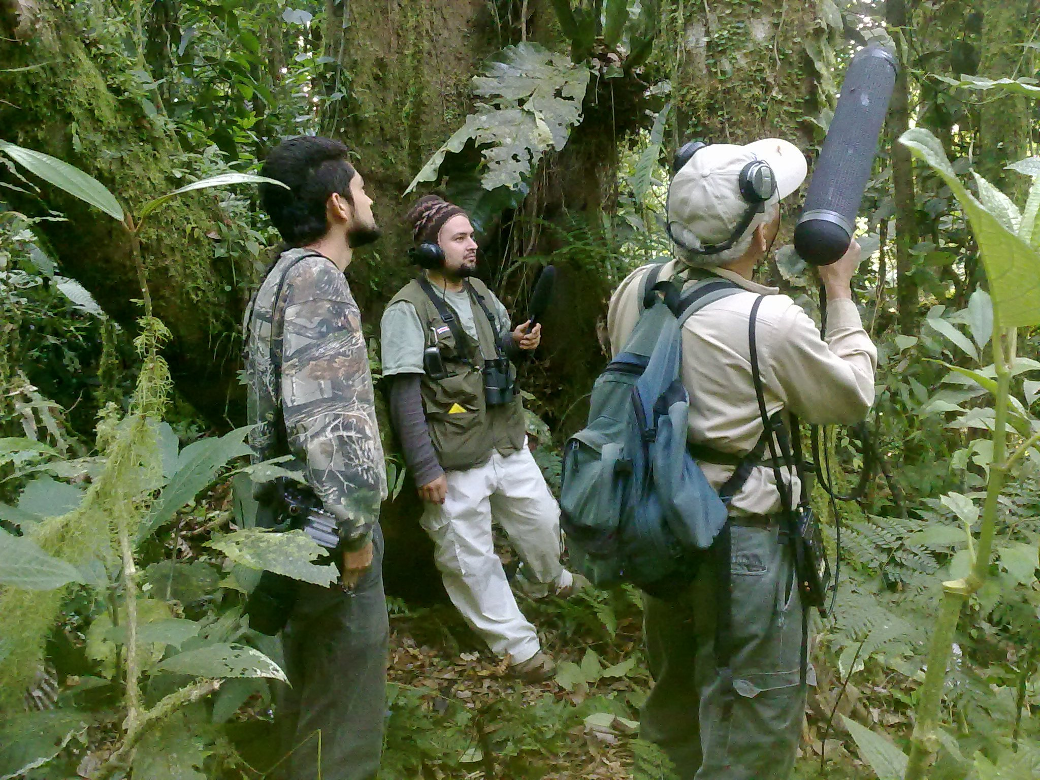 Ornithologists making field recordings of Cephalopterus glabricollis in Monteverde, Costa Rica.[1]